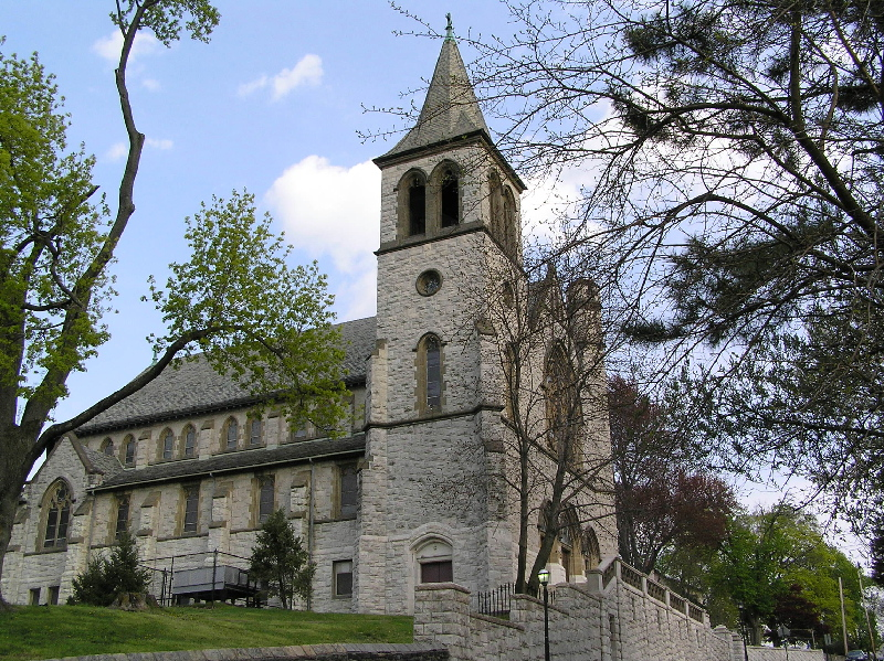 I took this photograph of Immaculate Conception Church in Eastchester, New York. —GNU Free Documentation License